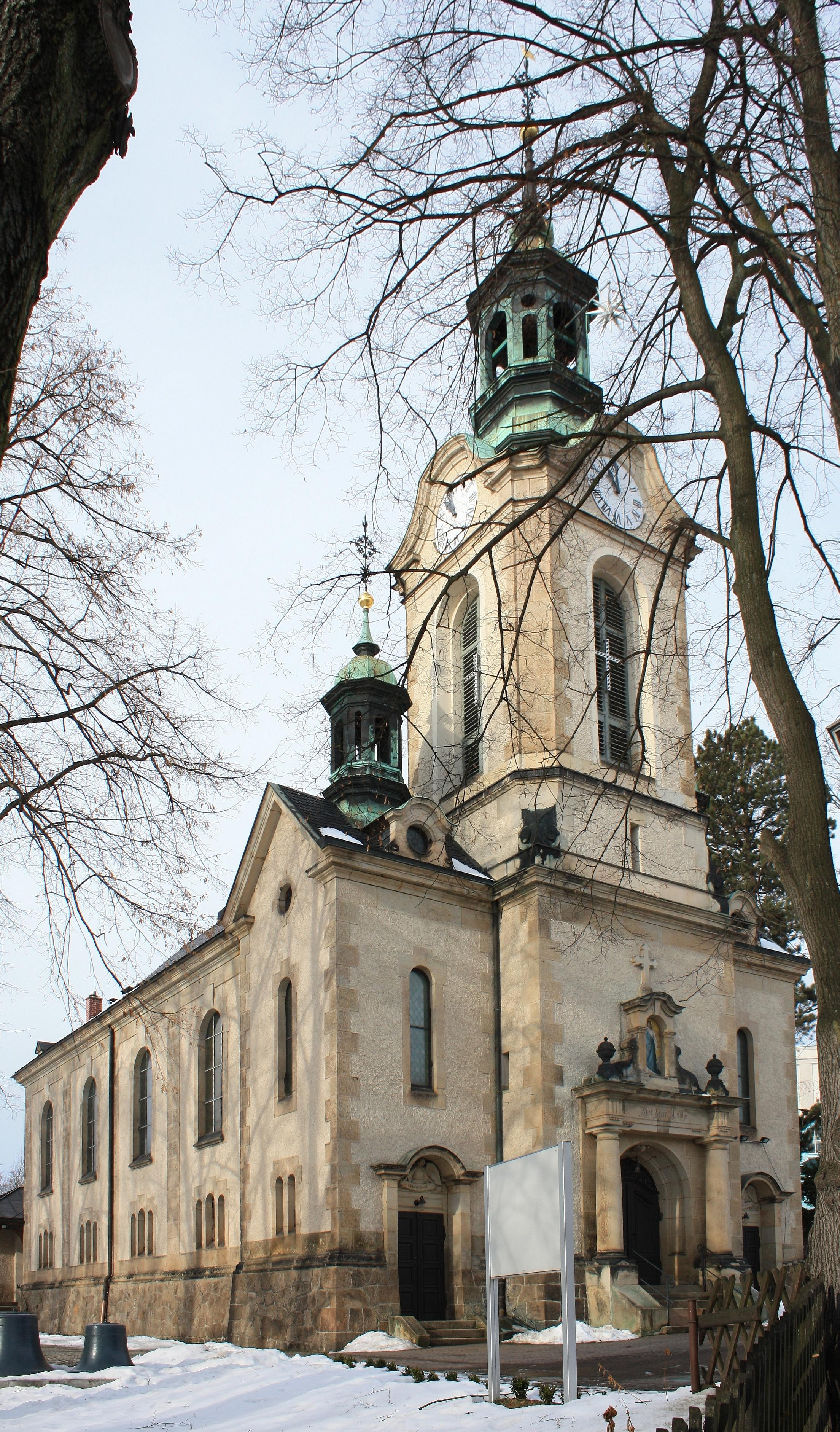 Christuskirche Beierfeld, view from SE